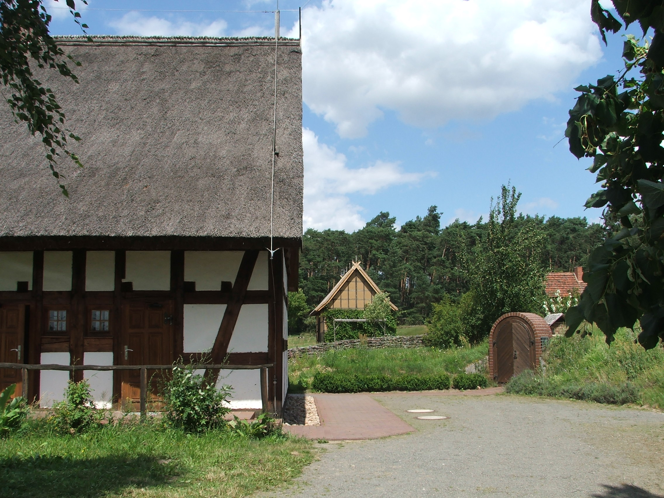 Höllberghof Langengrassau, near Luckau, Brandenburg, Germany